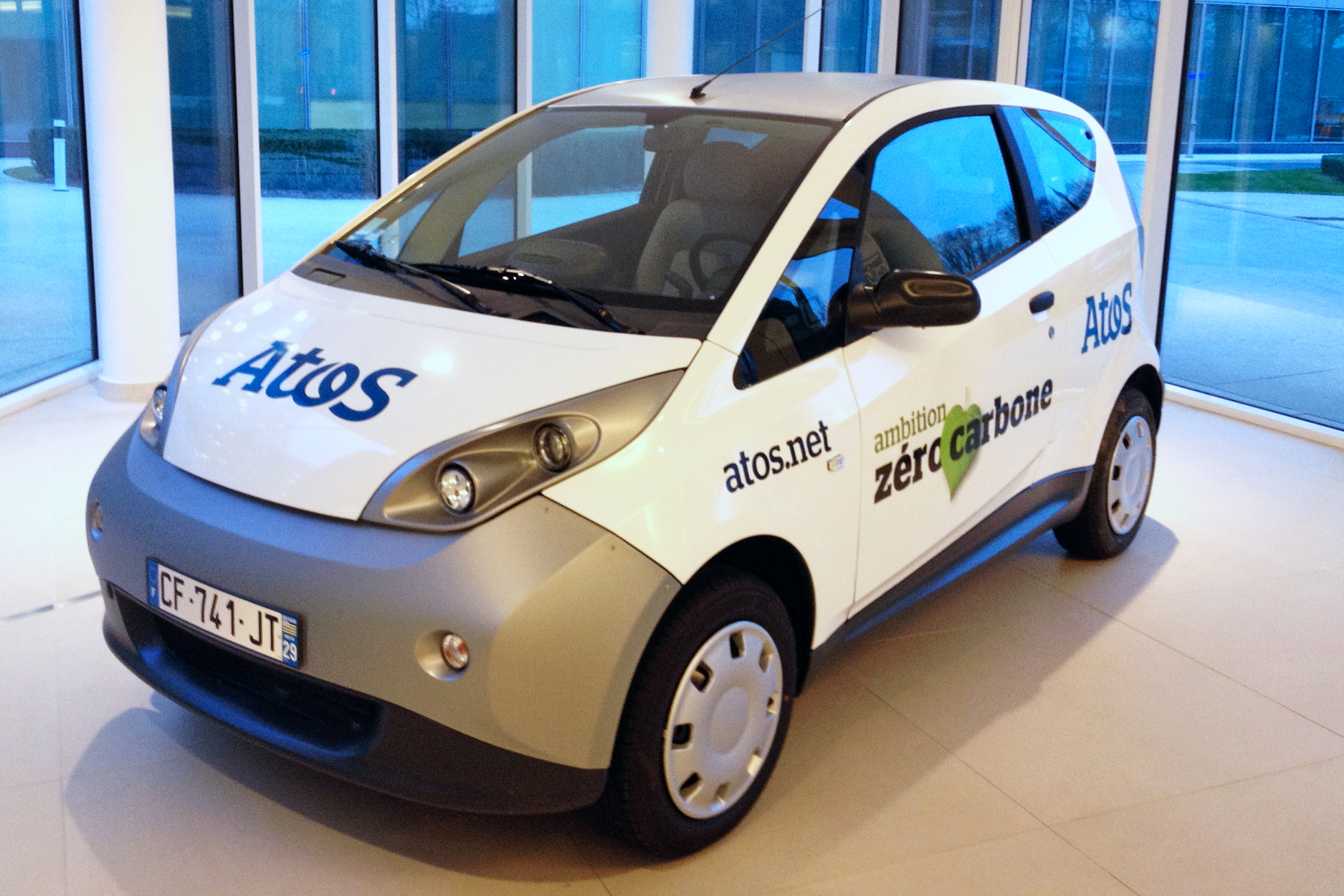 Bolloré Bluecar used by Atos private MyCar carsharing service at its headquarters in Bezons, France